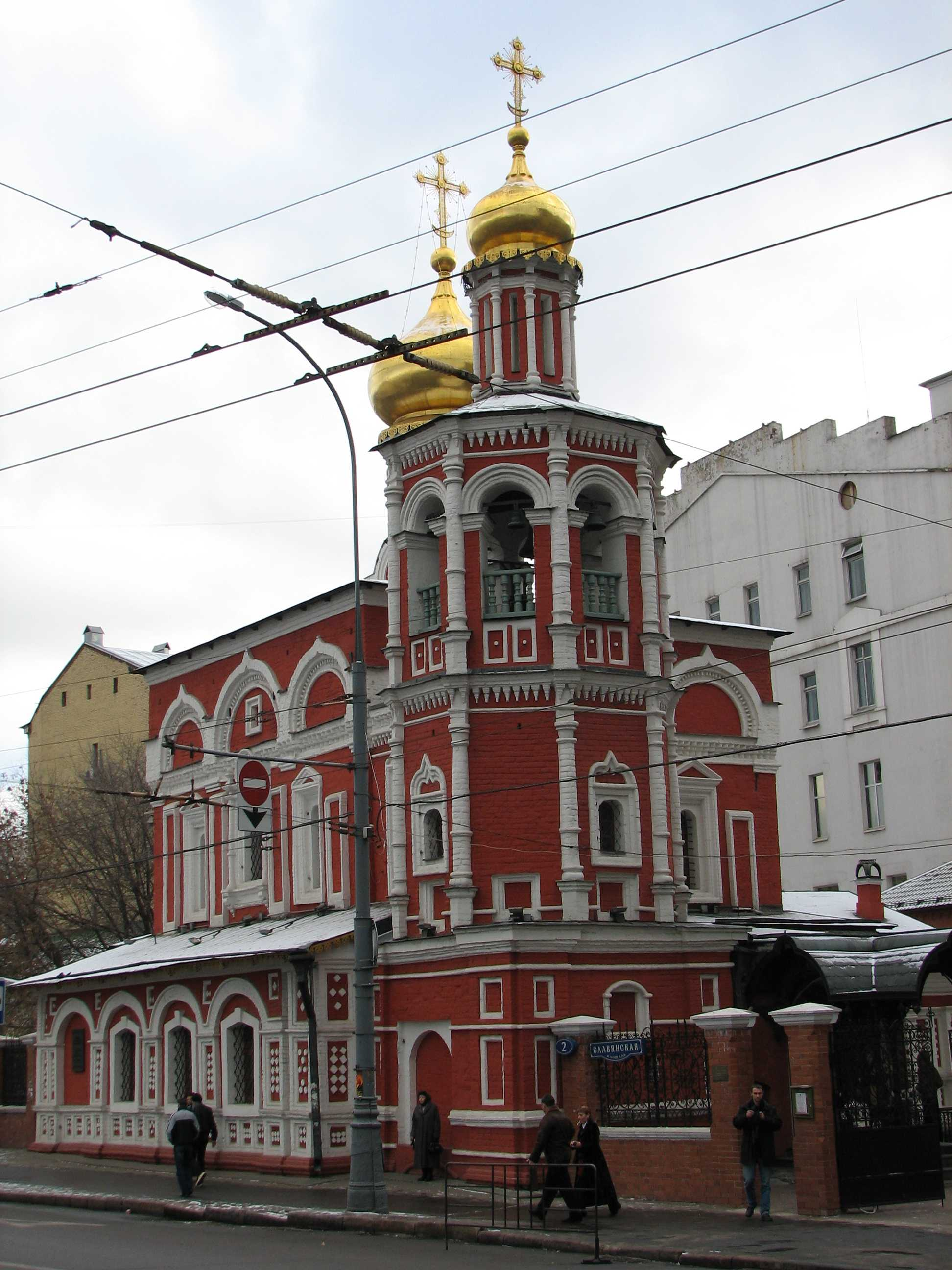 The metochion of the Eastern Orthodox Church of Alexandria in the Church of All Saints, Moscow: Церковь Всех Святых, что на Кулишках: アレクサンドリア総主教庁のポドヴォリエが入っている諸聖人聖堂（モスクワ）